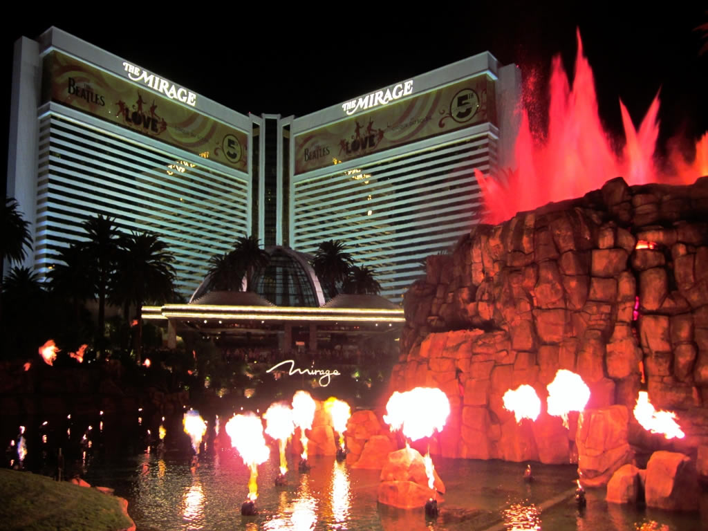 Each night every hour on the hour a volcano erupts outside The Mirage in Las Vegas, Nevada.